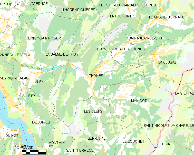 Map of French municipality Thônes